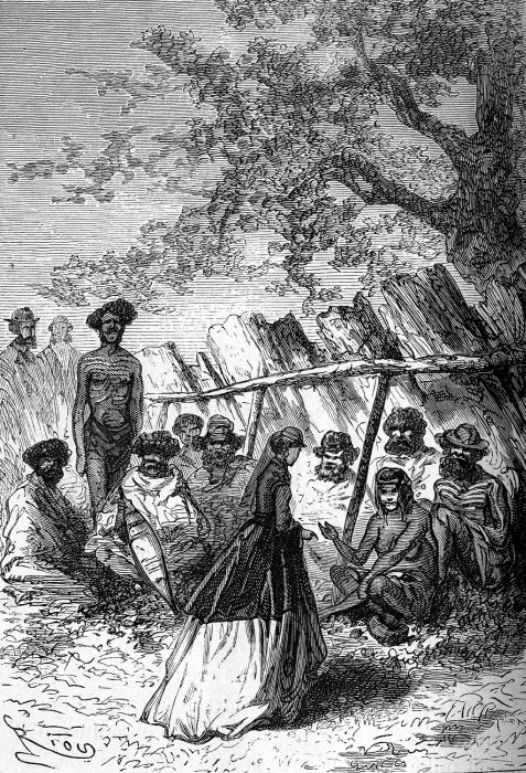 An ilustration from the novel "In Search of the Castaways; or Captain Grant's Children" by Jules Verne drawn by Édouard Riou.